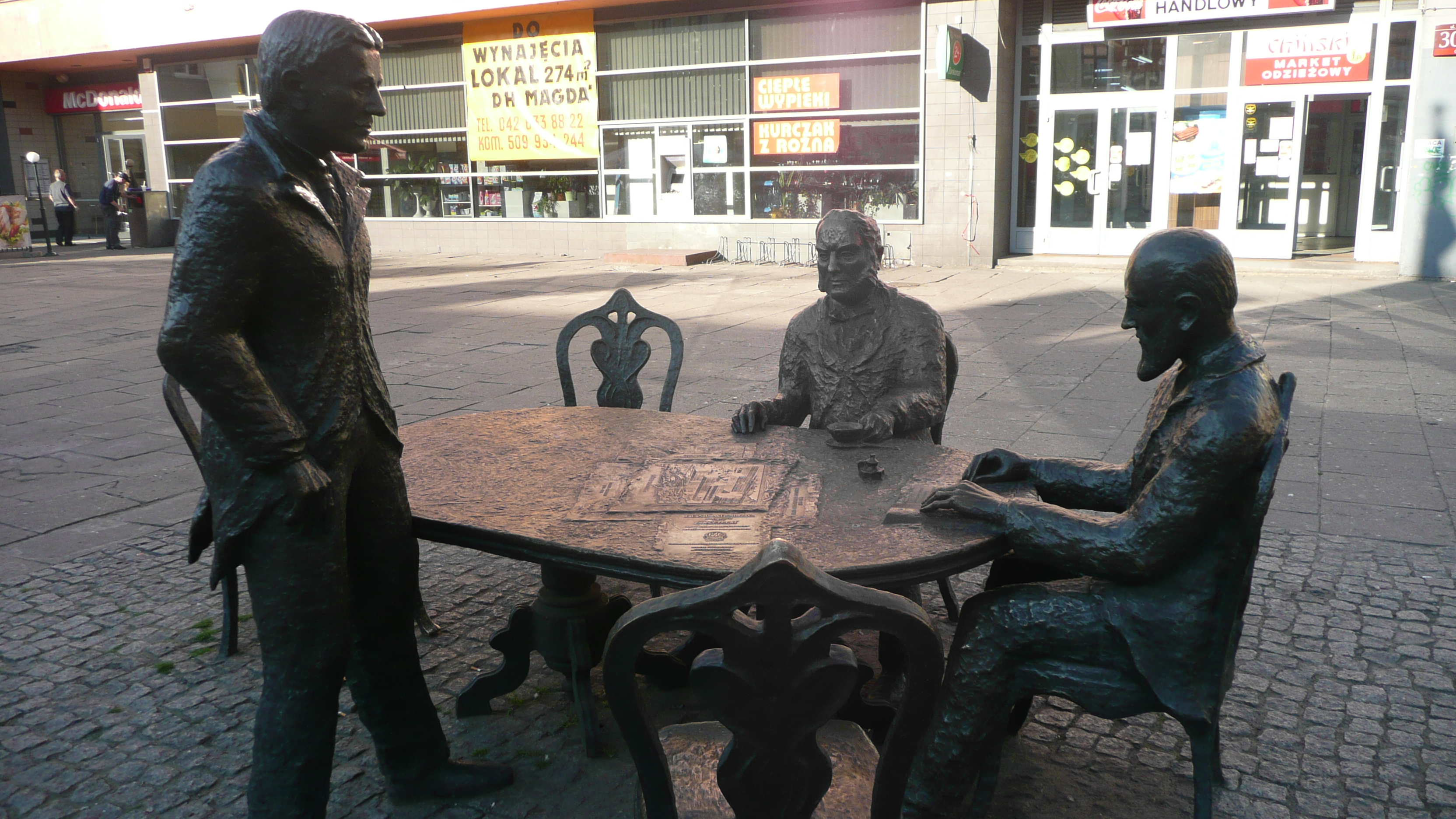 Three factory owners in Lodz: Ludwik Grohman, Karl Wilhelm Scheibler, Izrael Poznanski in Piotrkowska street